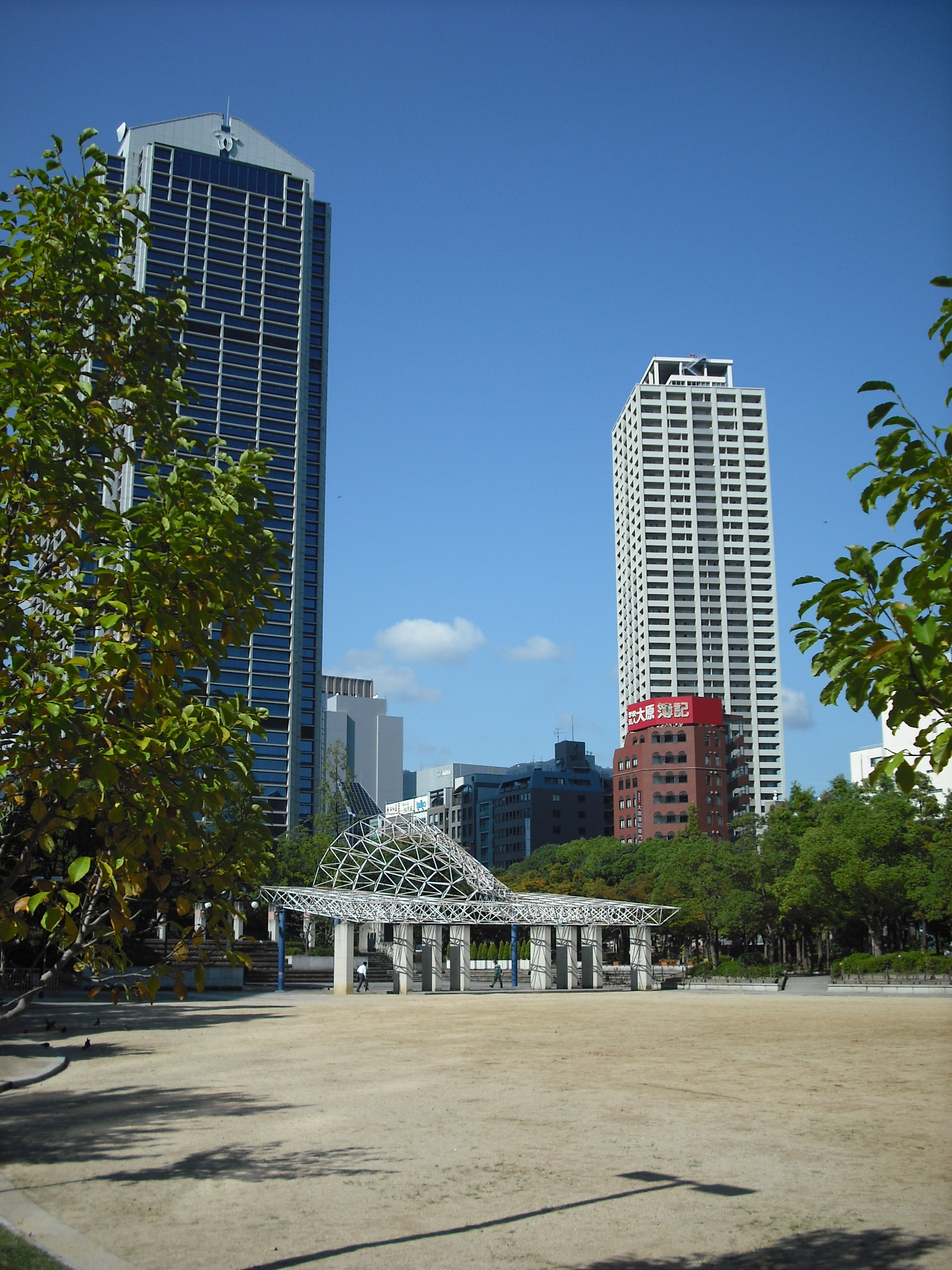 Higashi-yuenchi, Kobe, Hyogo prefecture, Japan